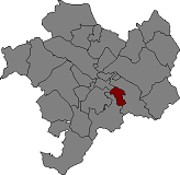 Location of Sant Cugat Sesgarrigues in Alt Penedès